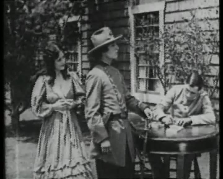 Scene from the movie The General. 1926.